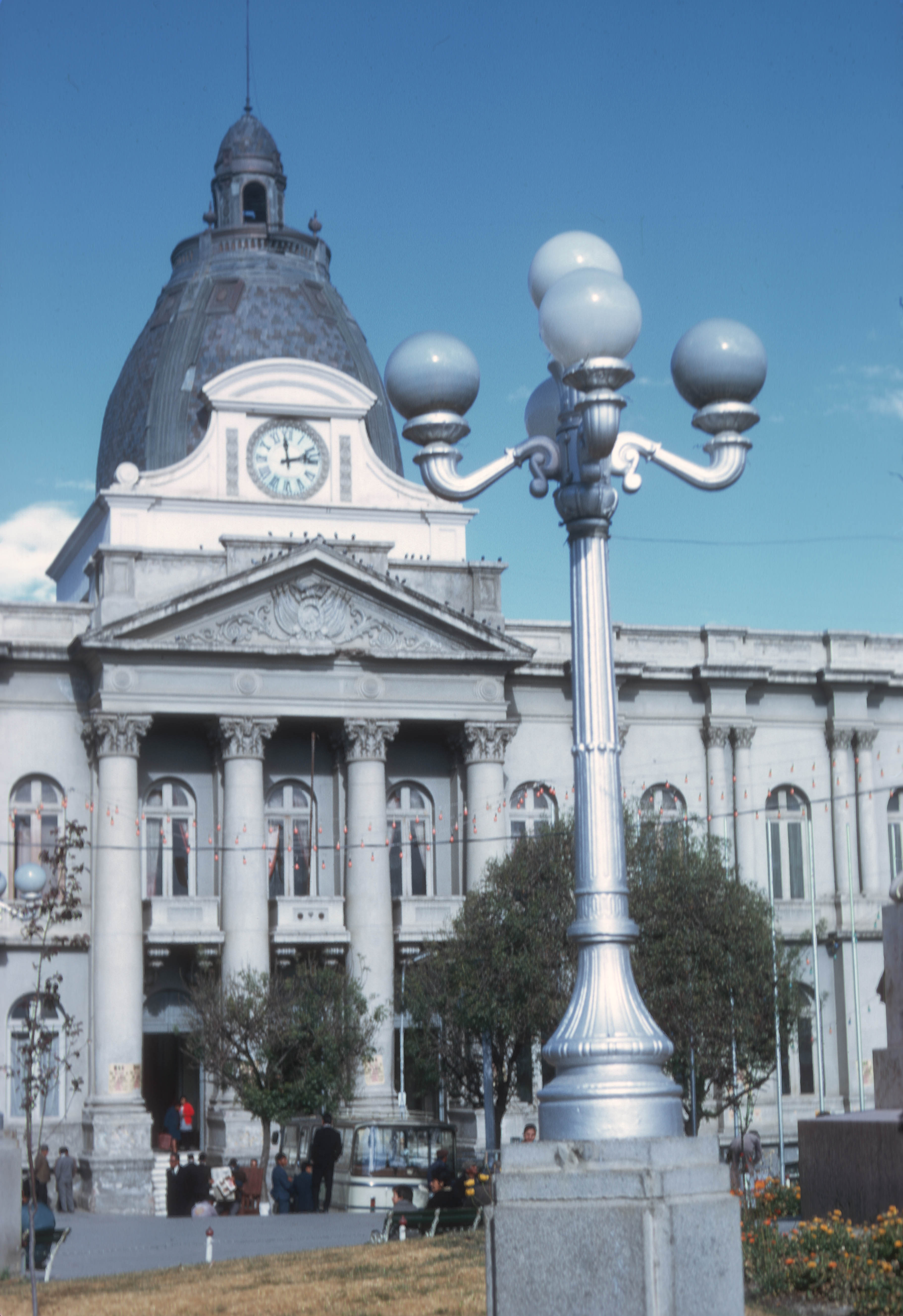 HANGING LAMPPOST WHERE PRESIDENT VILLAROEL WAS LYNCHED IN THE 1946. HE HEADED THE MNR PARTY - A LABOR PARTY